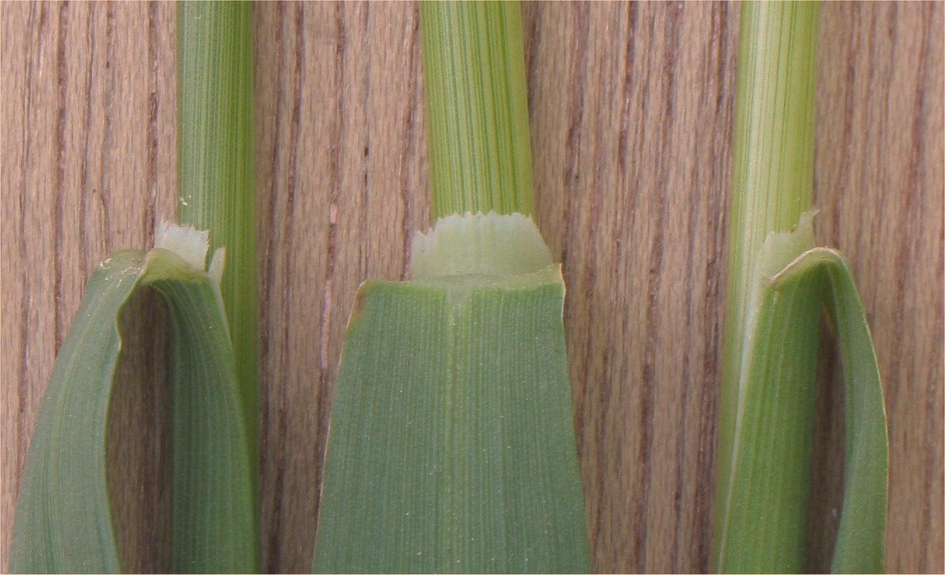 (Glanshaver tongetje) ligula Arrhenatherum elatius